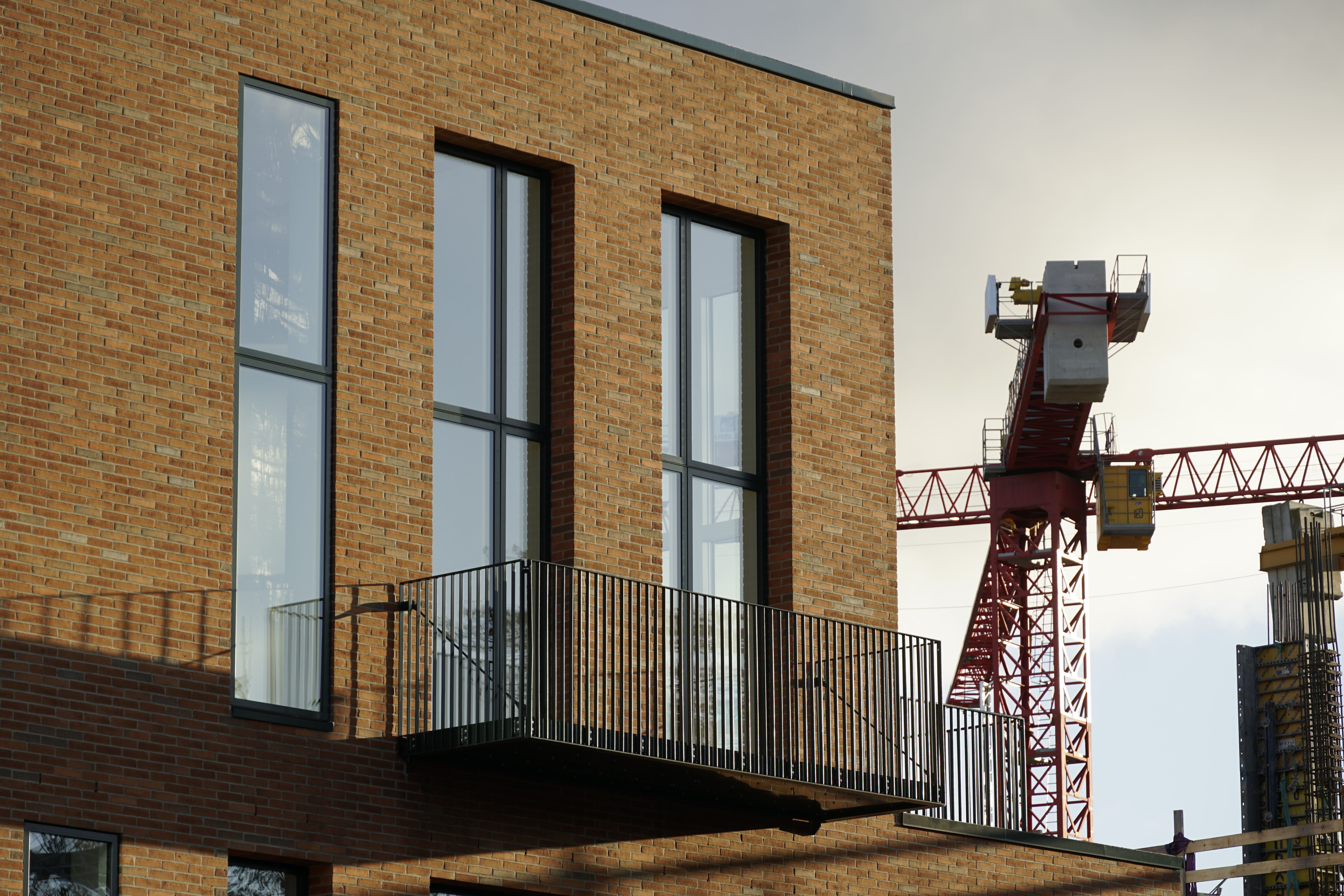 Ottilia Jacobsens square